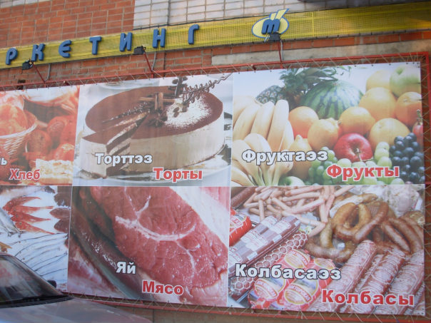 Komi-Permyak—Russian bilingual board in Kudymkar, Russia